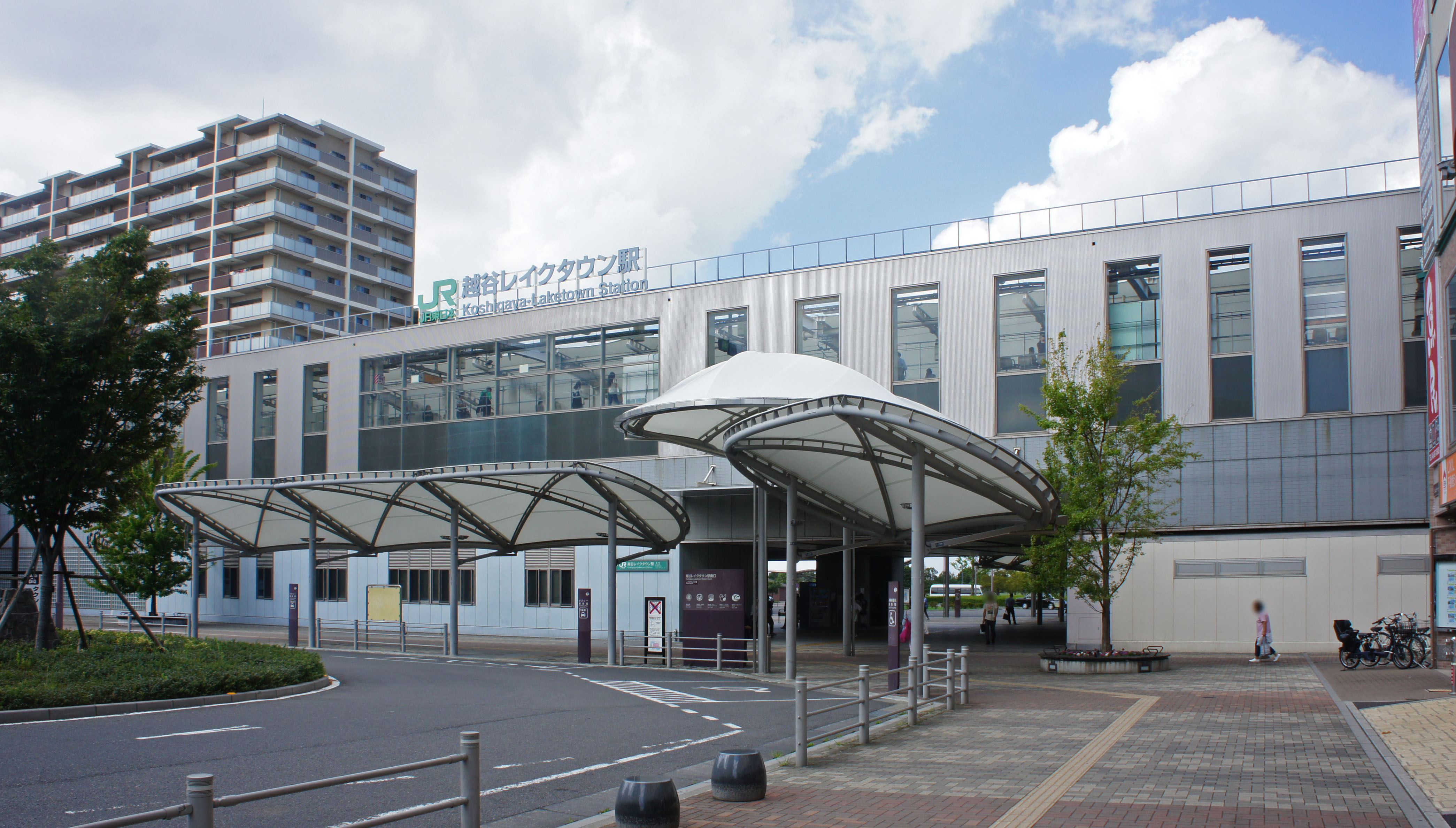 South Exit of JR Musashino-Line Koshigaya-Laketown Station